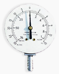 Pressure-vacuum gauge face and dial Source: english wikipedia, original upload 2 April 2004 by Leonard G. Image:WPGaugeFace.jpg ==